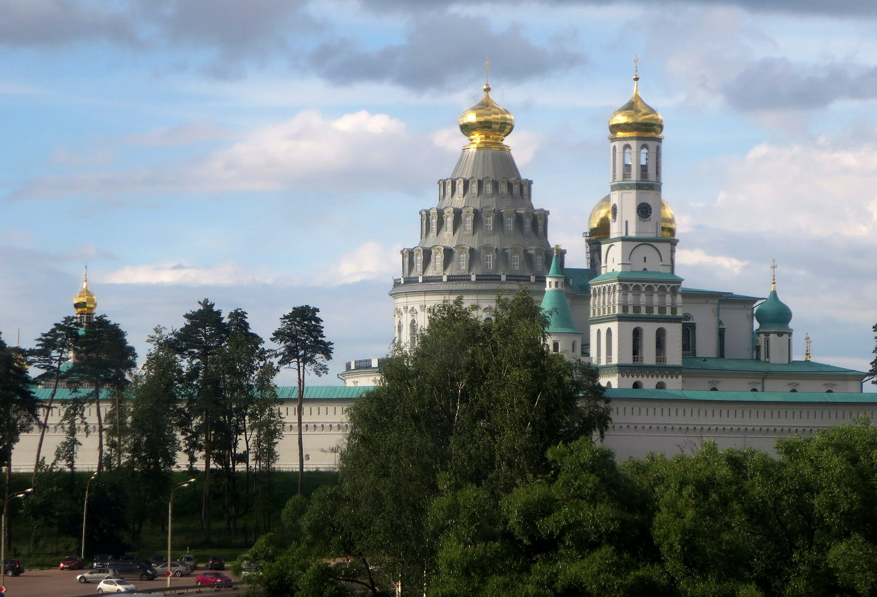 Voskresensky (Resurrection) or 'New Jerusalem' Monastery in Istra, near Moscow.